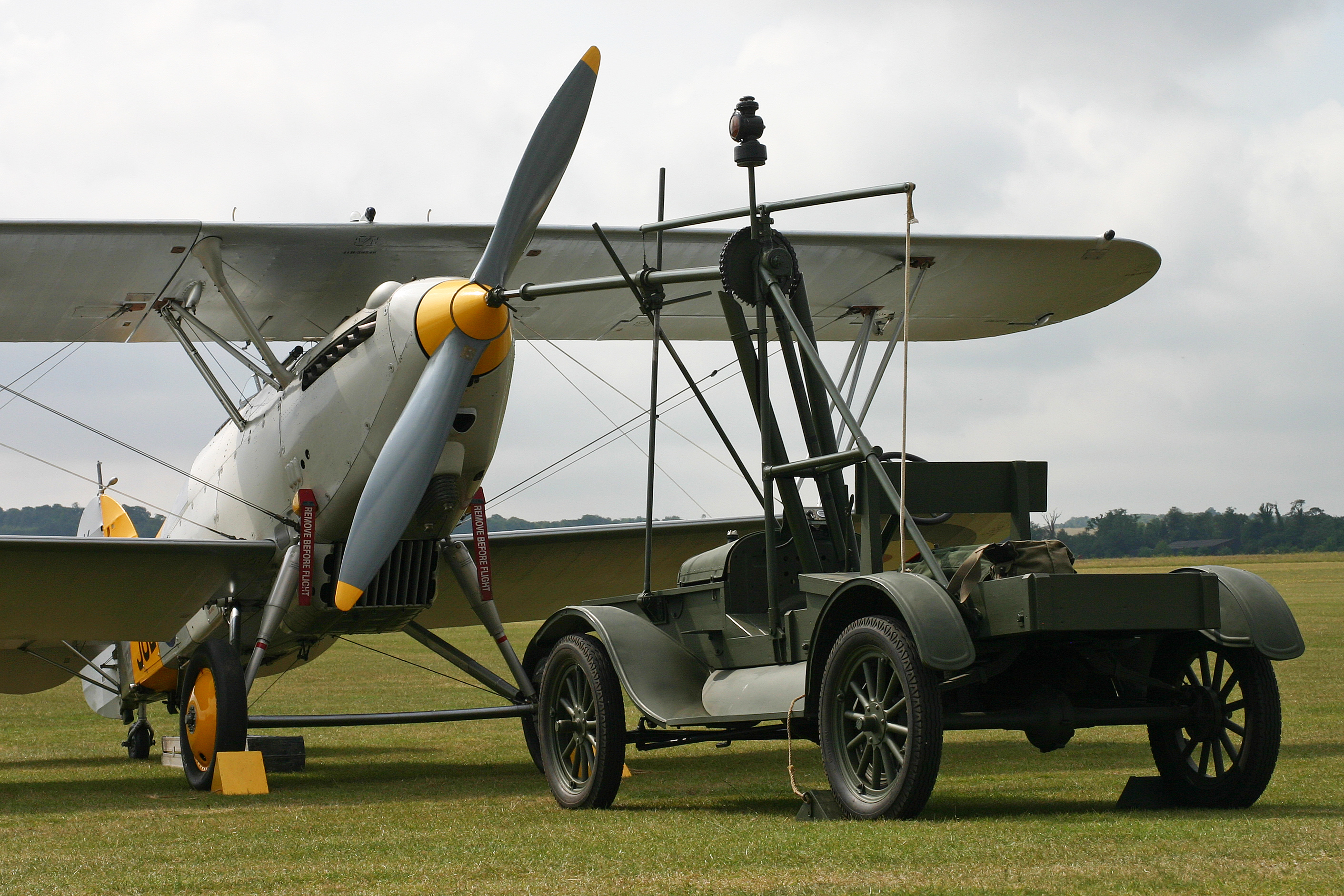 Linked up to a Hucks starter on the grass flightline is the Historic Aircraft Collections Hawker Nimrod II. In genuine Royal Navy markings as 'K3661 / 562', it's actual civil reg is G-BWWK. Flying Legends 2011. Duxford. 10-7-2011